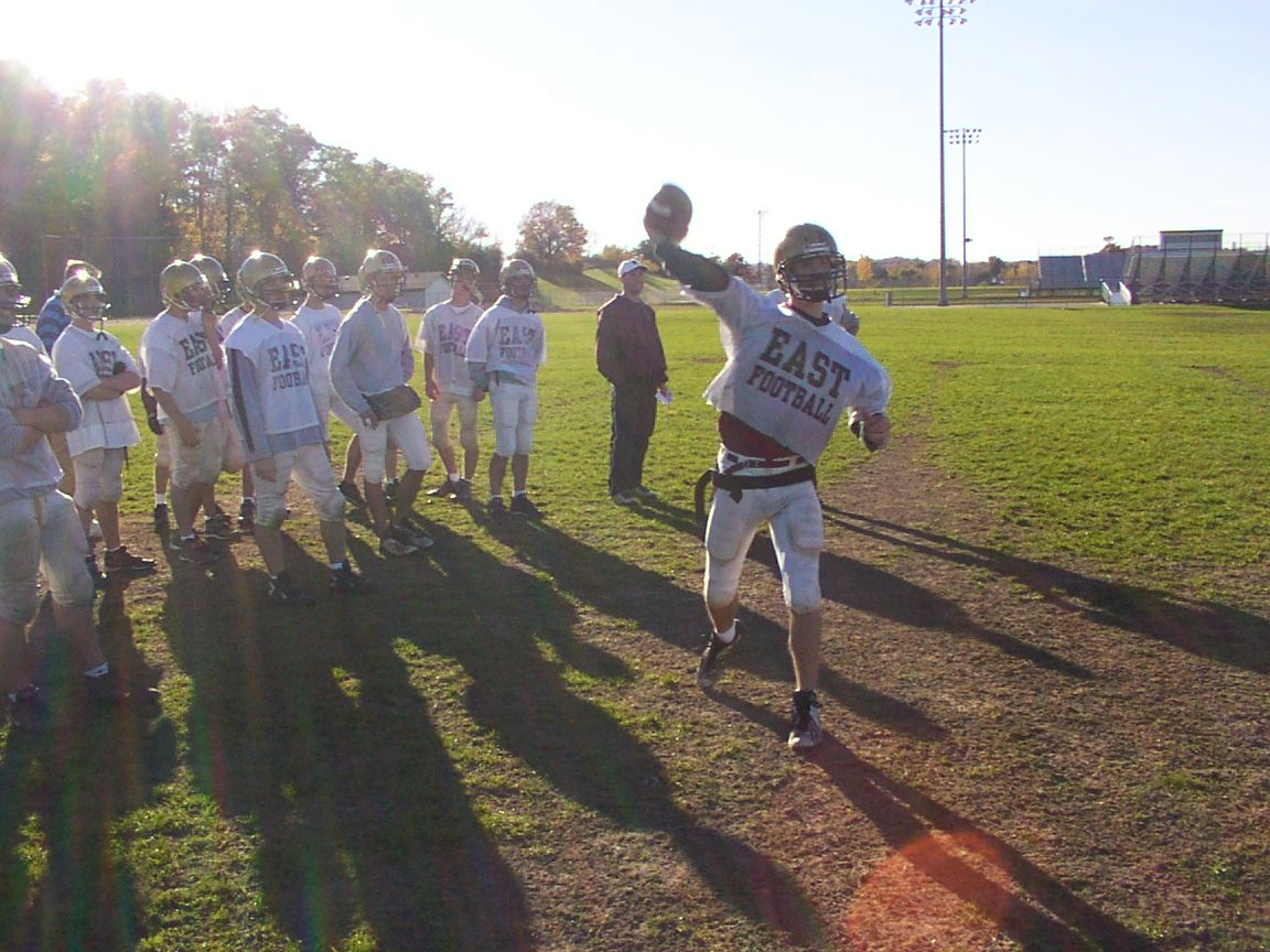 Ryan making a throw at hs practice